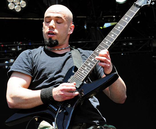 Marc Rizzo at the Perth Big Day Out Festival 2012.